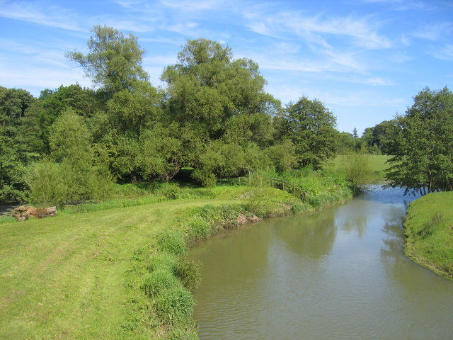 River Stour. The river seen looking towards Ettington Park from the bridge on the Stratford-upon-Avon Road.